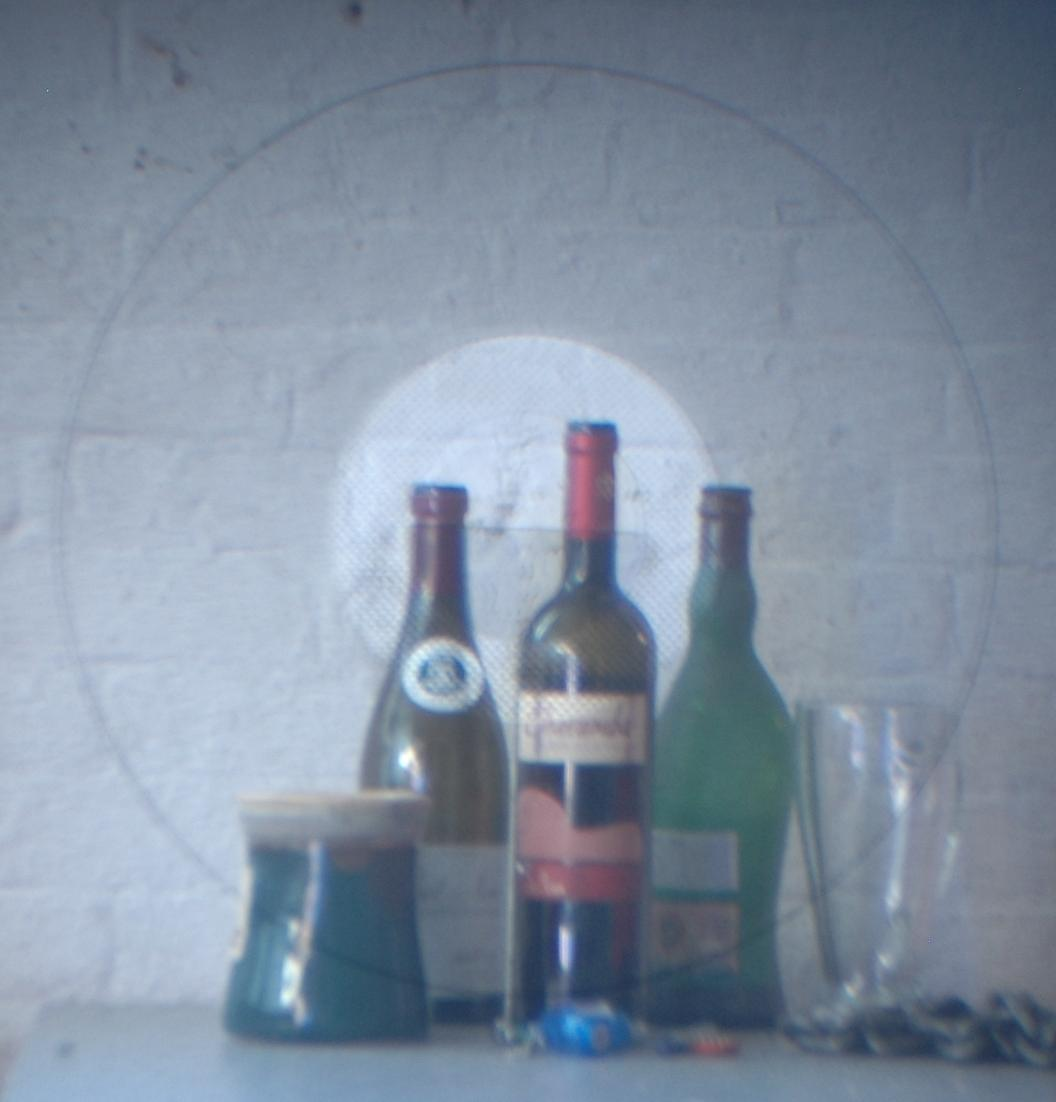 Image seen through the viewfinder of a SLR camera, showing the split-screen and prism ring of the focusing screen, in focus.